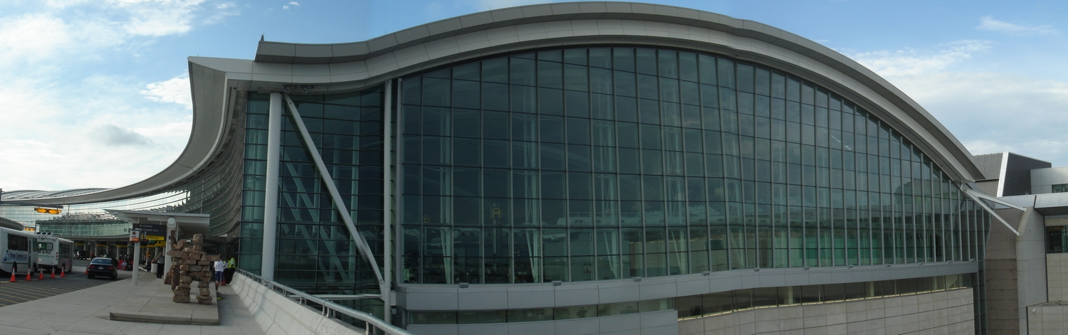 Toronto Peason Airport – Terminal 1 front